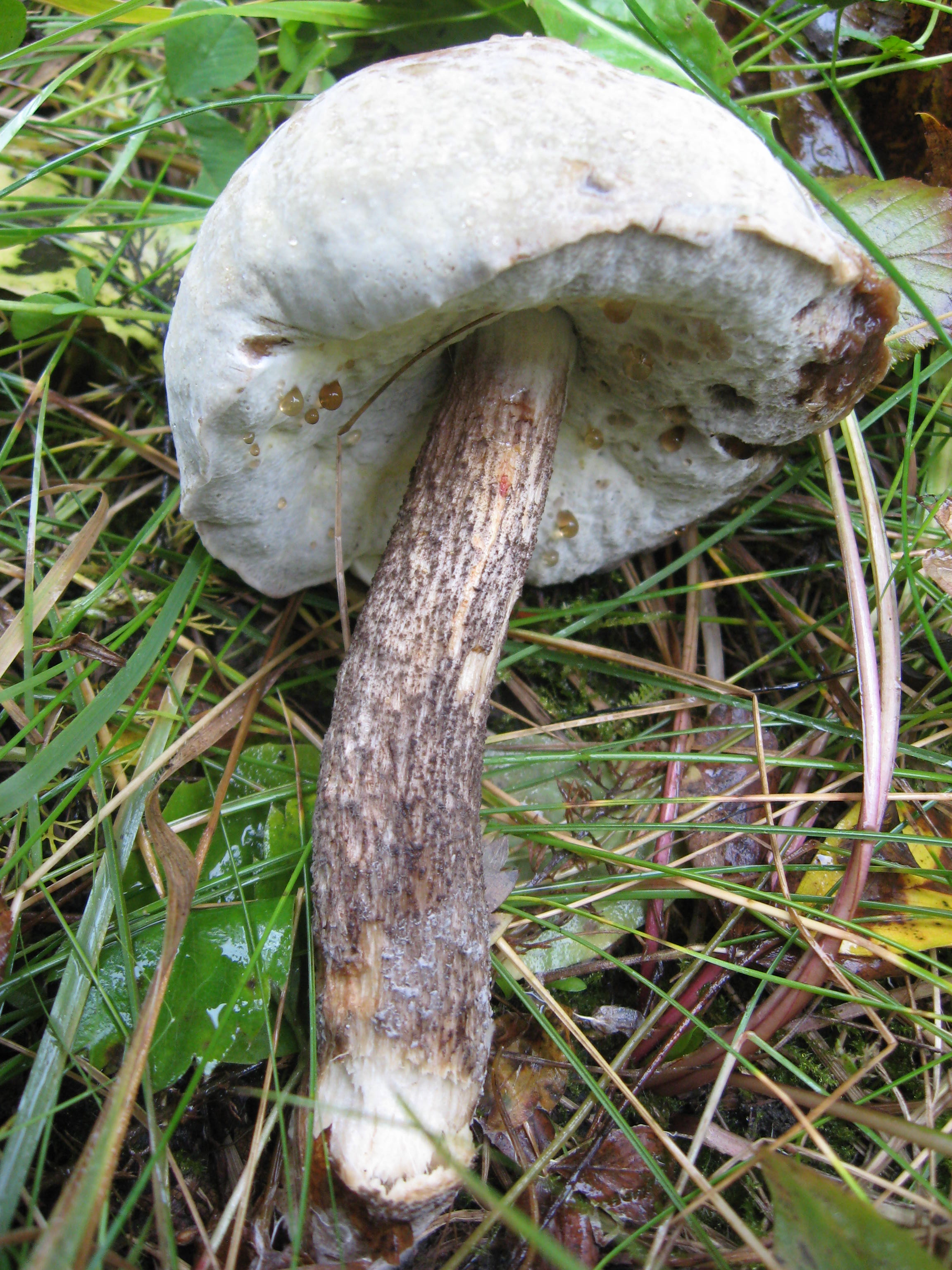 The bolete mold "Hypomyces chrysospermus". Photographed near La Ronge, Saskatchewan, Canada.